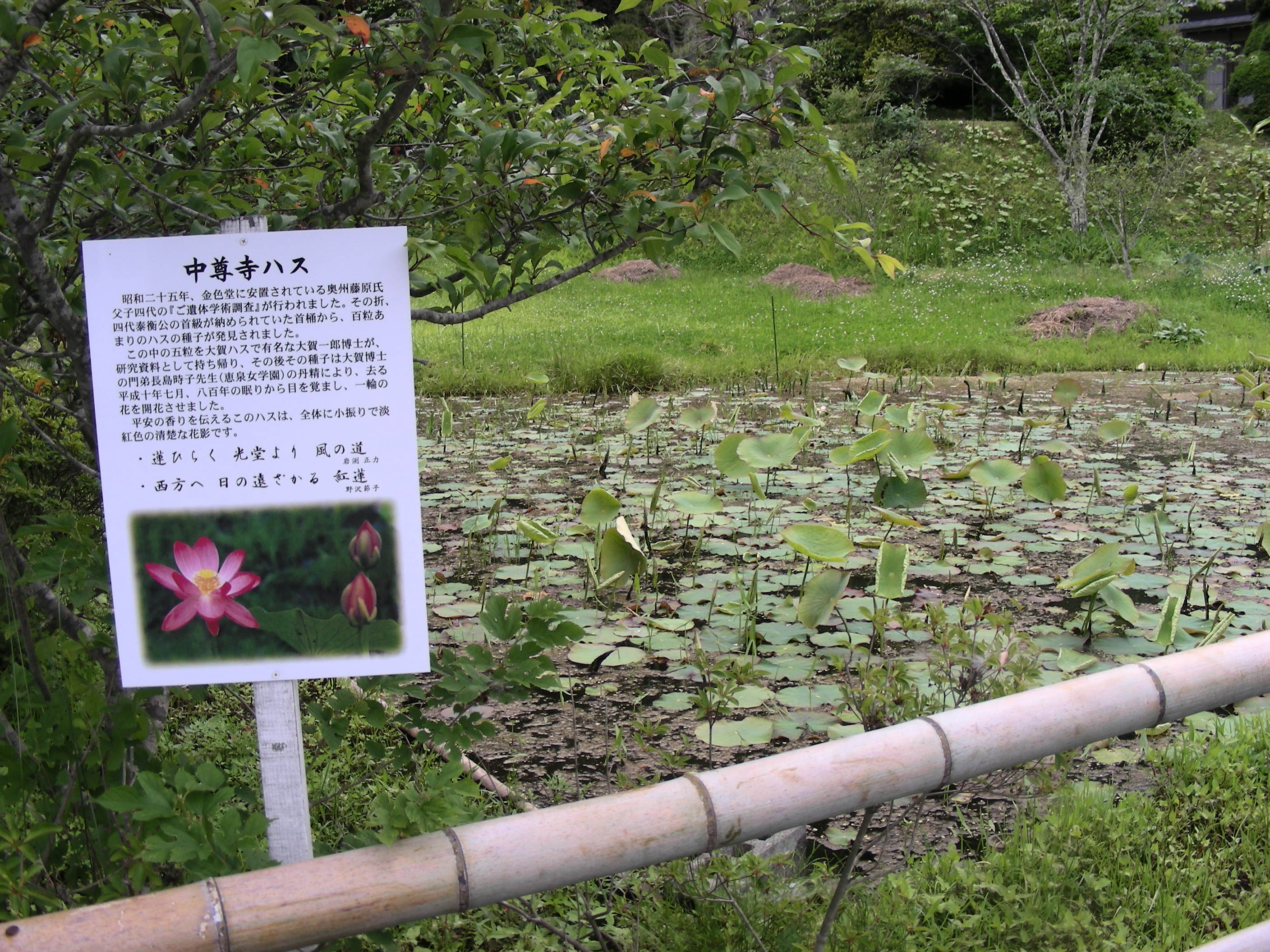 "Chūson-ji Lotus"